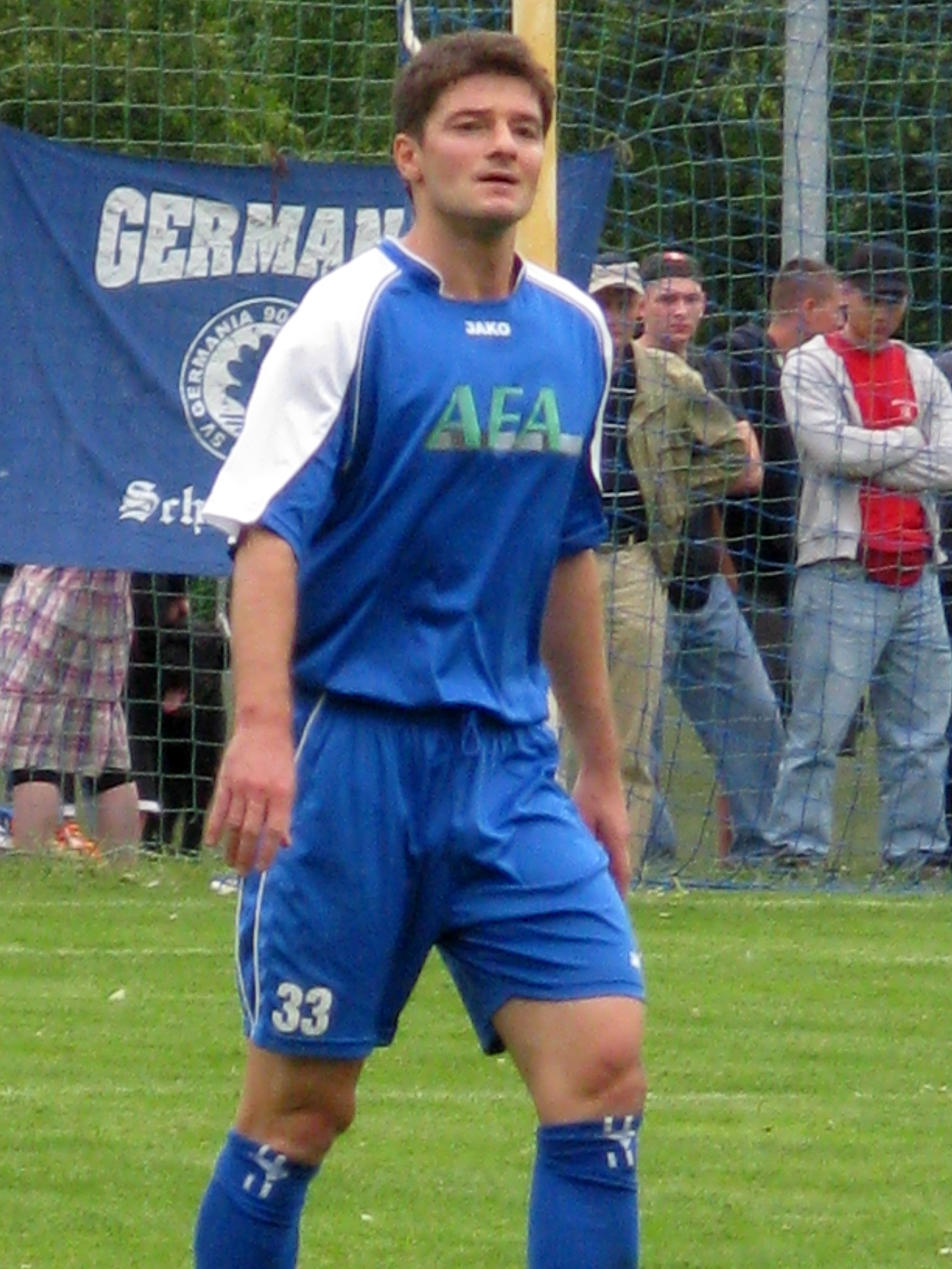 Regional Cup-final of Land Brandenburg on 14th June 2009 in Schöneiche near Berlin; Germania 90 Schöneiche - SV Babelsberg 03 (0-1); Schöneiche in Blue, Babelsberg in White; here: Tom Persich